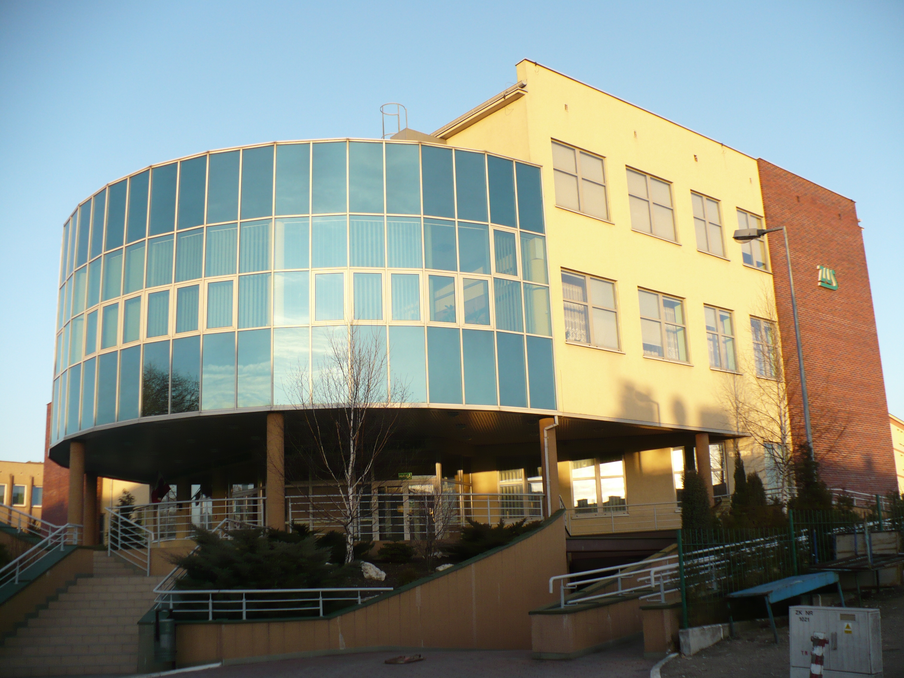 Inspktorat ZUS w Kłobucku/Social Insurance Institution in Kłobuck